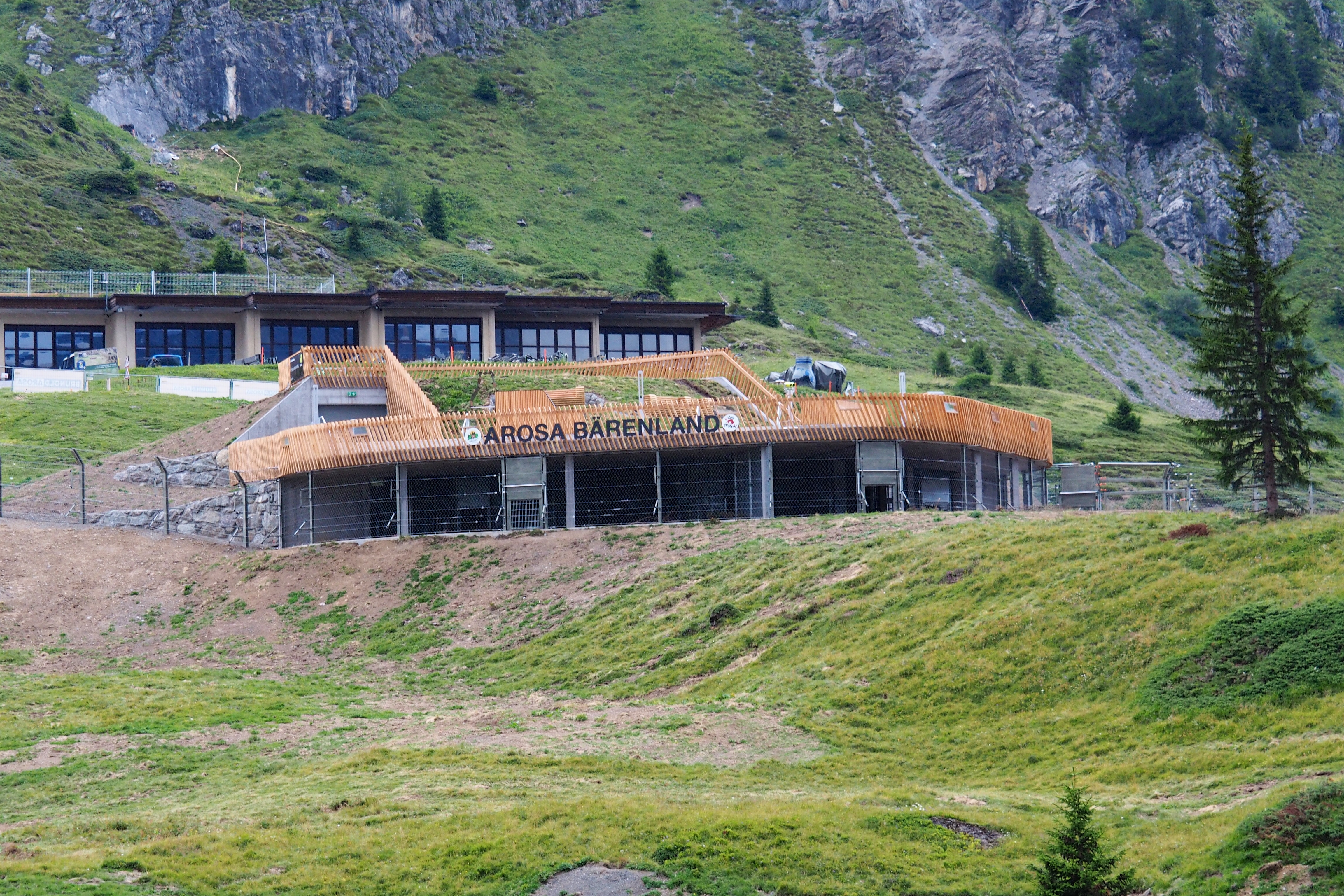 Arosa Bärenland visitor center (bear sanctuary in Switzerland)